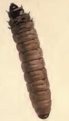 Stainton’s Natural History of the Tineina (1855–1873): Coleophora vibicella